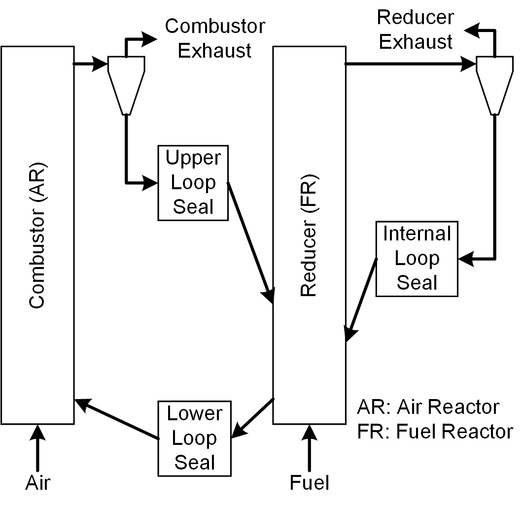 CLR and CLG fig 4